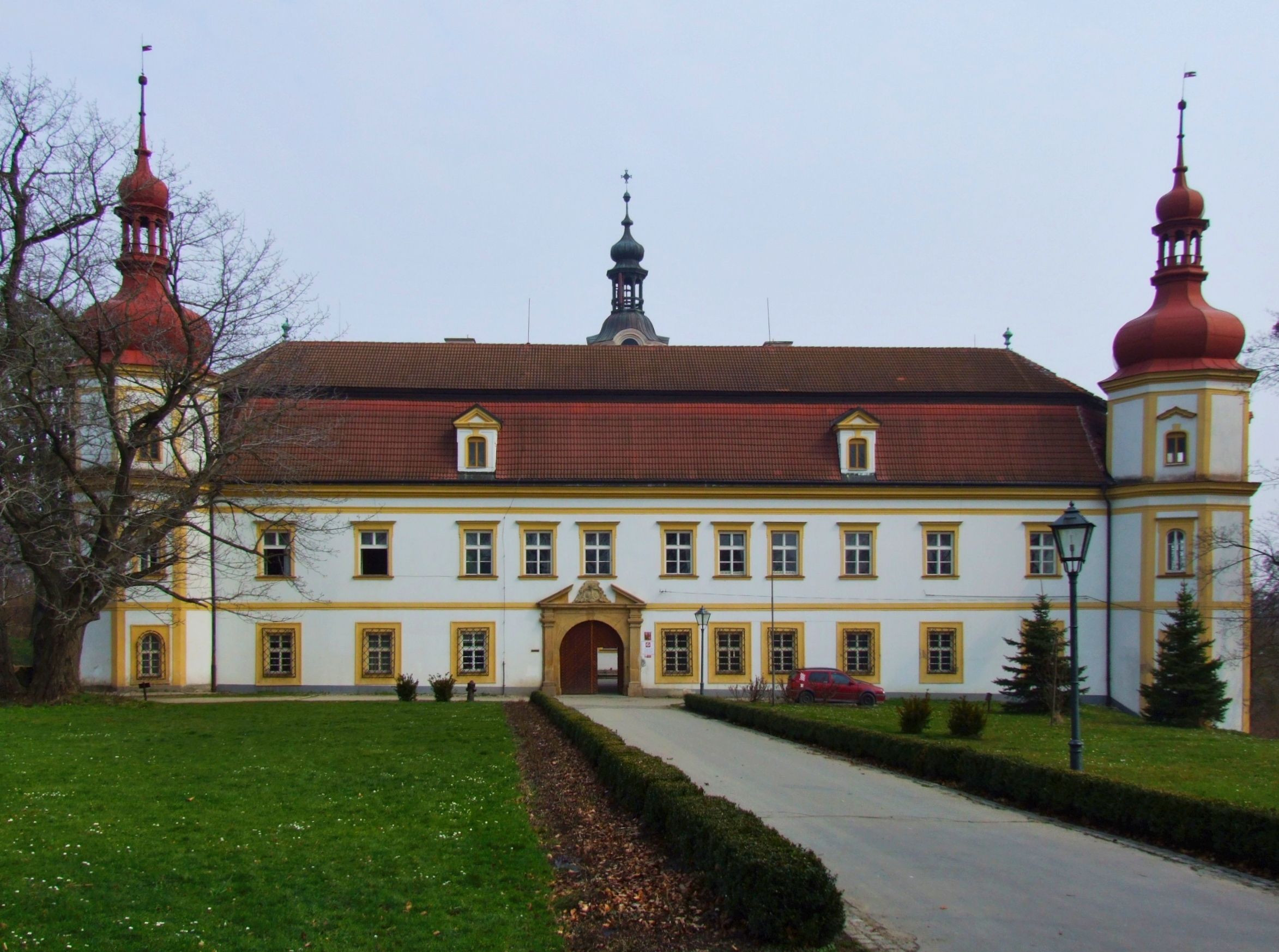 Castle in Velké Heraltice (Groß Herrlitz), Czech Silesia